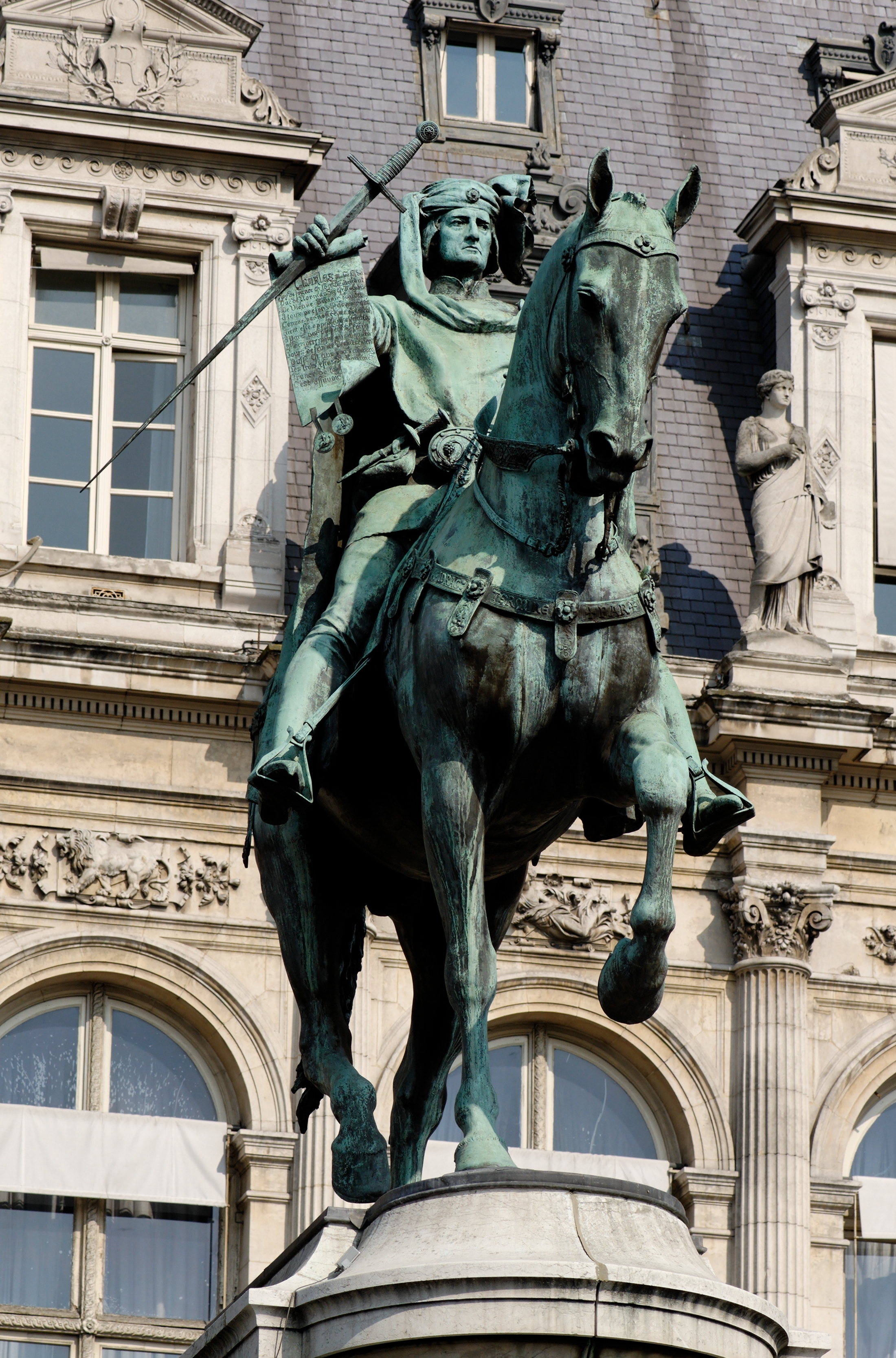 Étienne Marcel, provost of the Parisian merchants in the 14th century, by Jean Idrac (French, 1849–1884) and Laurent Marqueste (French, 1850–1920). Bronze, 1880. Southern facade of the Hotel de Ville, 4th arrondissement of Paris.